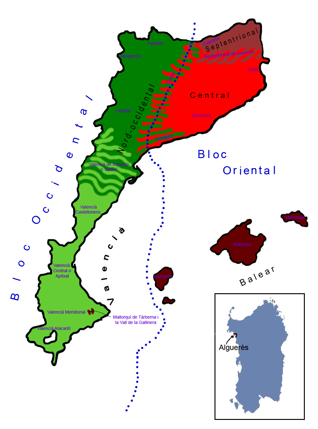 Dialectal map of the Catalan Language